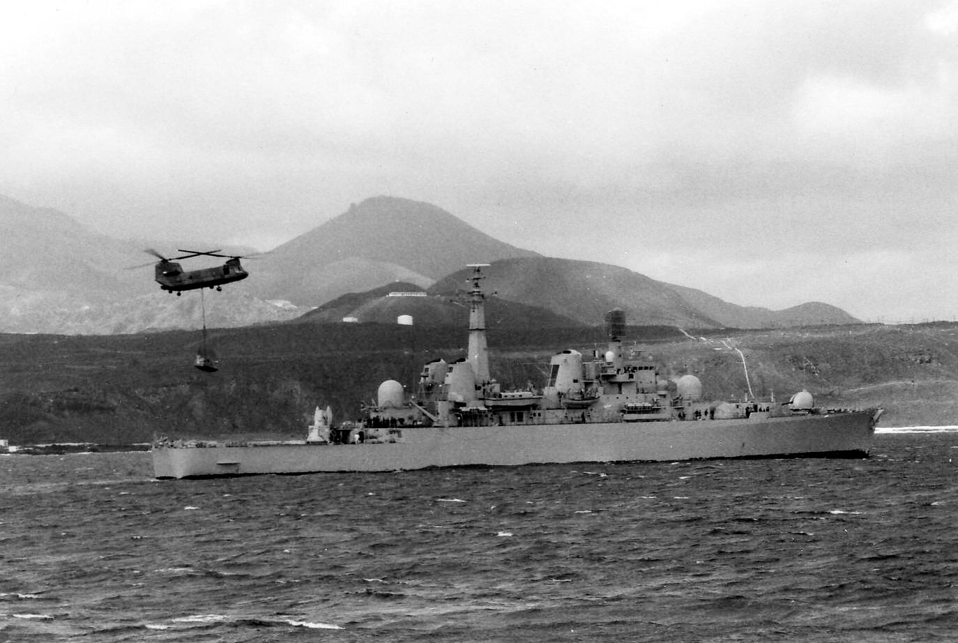 HMS Bristol storing war supplies at Ascension Island 1982.